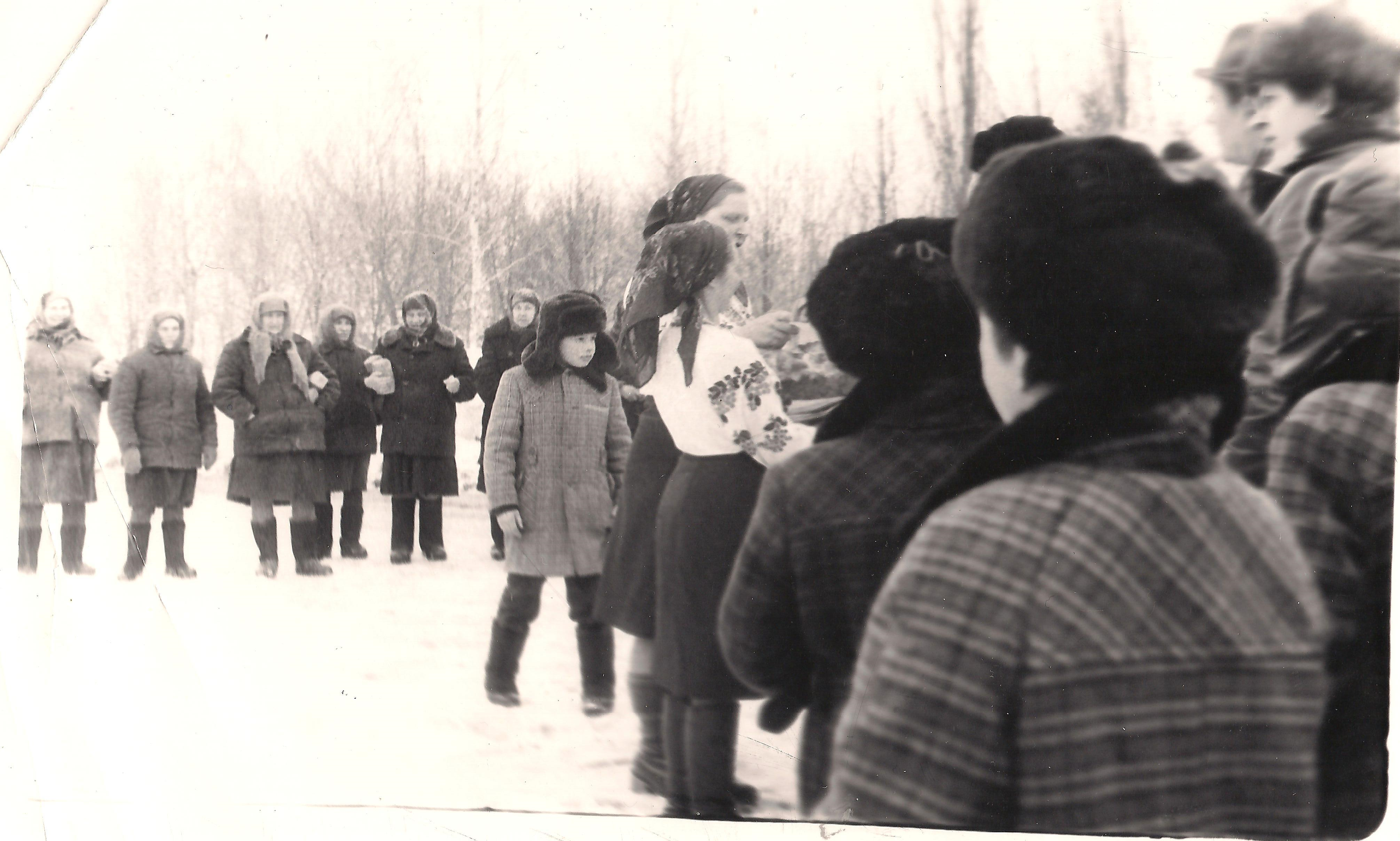 Візит до села солдатів-визволителів до дня 40-річчя визволення с. Мітлинець від німецько-фашистських загарбників